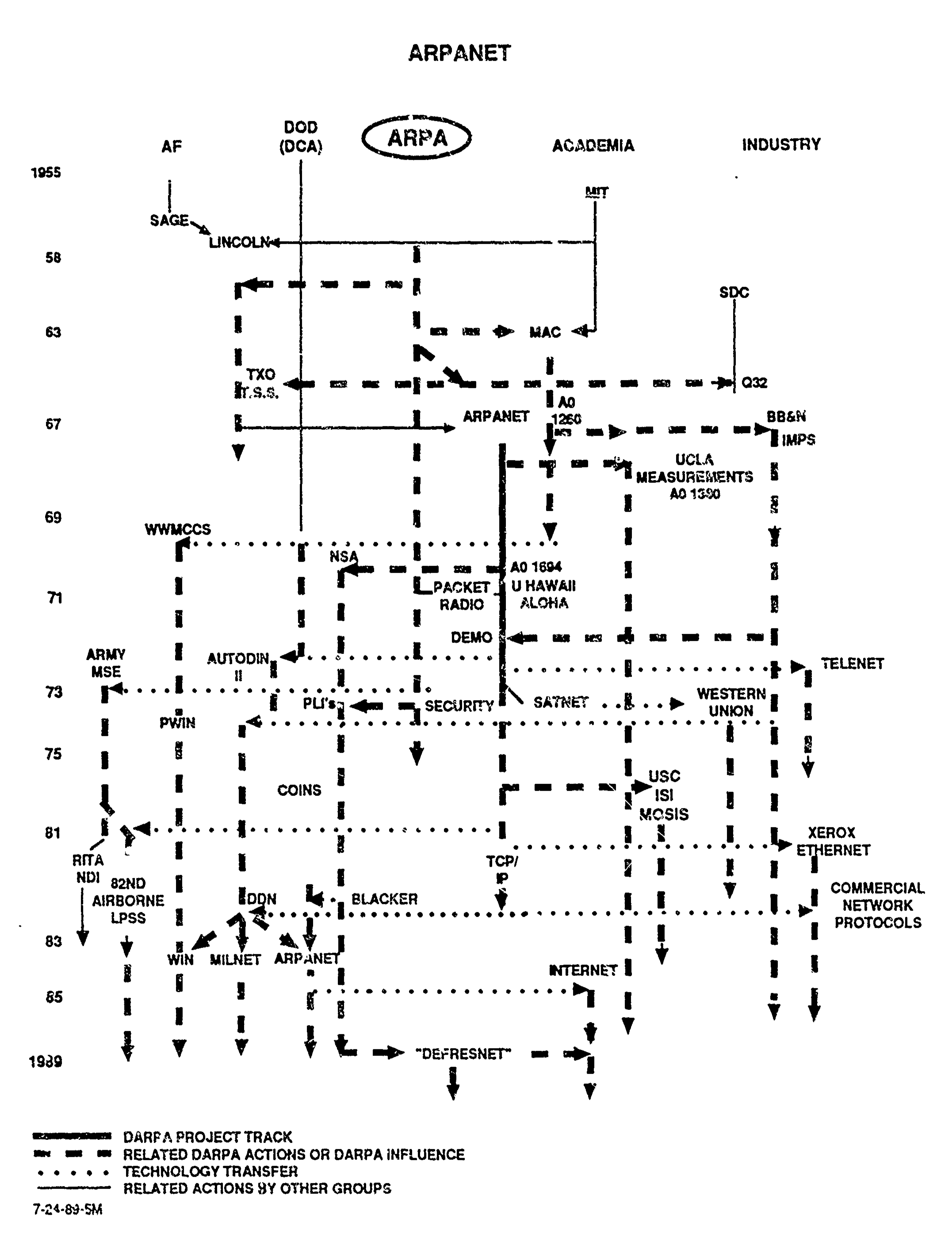 ARPANET and related projects - from DARPA Technical Accomplishments An Historical Review of DARPA Projects, IDA Paper P-2192, 1990.